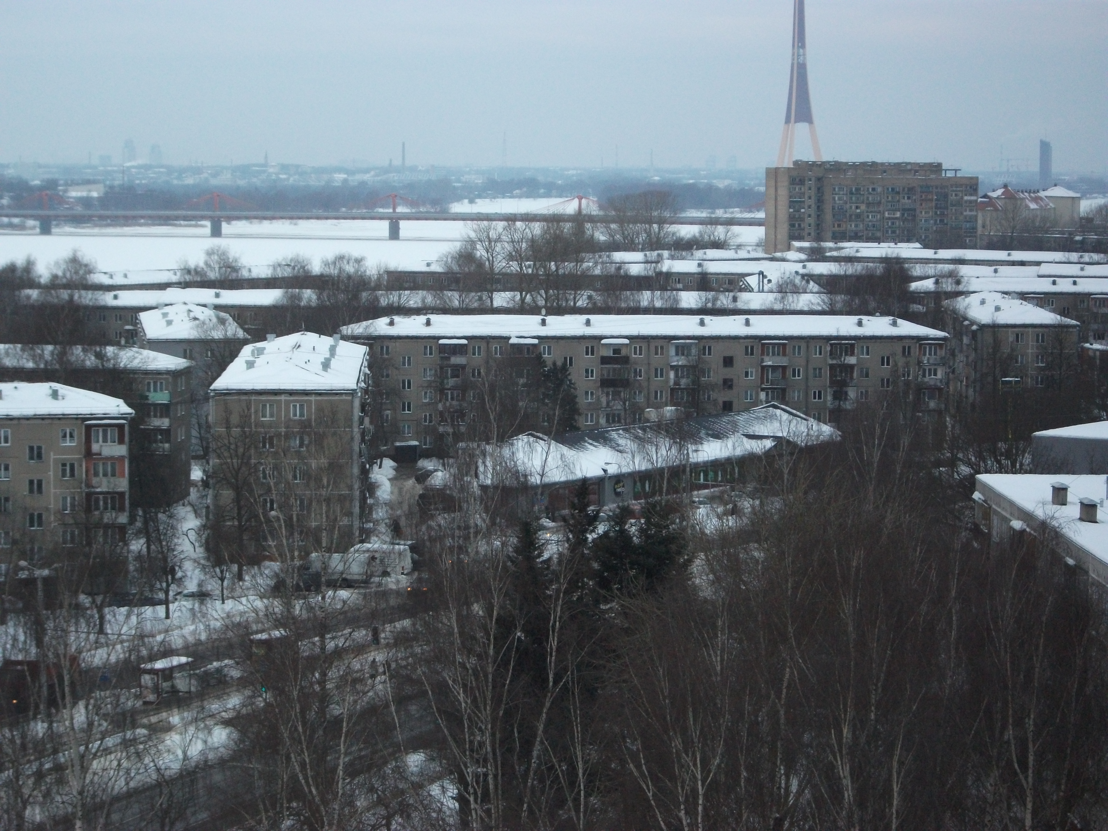 The view of Ķengarags in Riga, taken from the last floor of 12-floor block-of-flats.